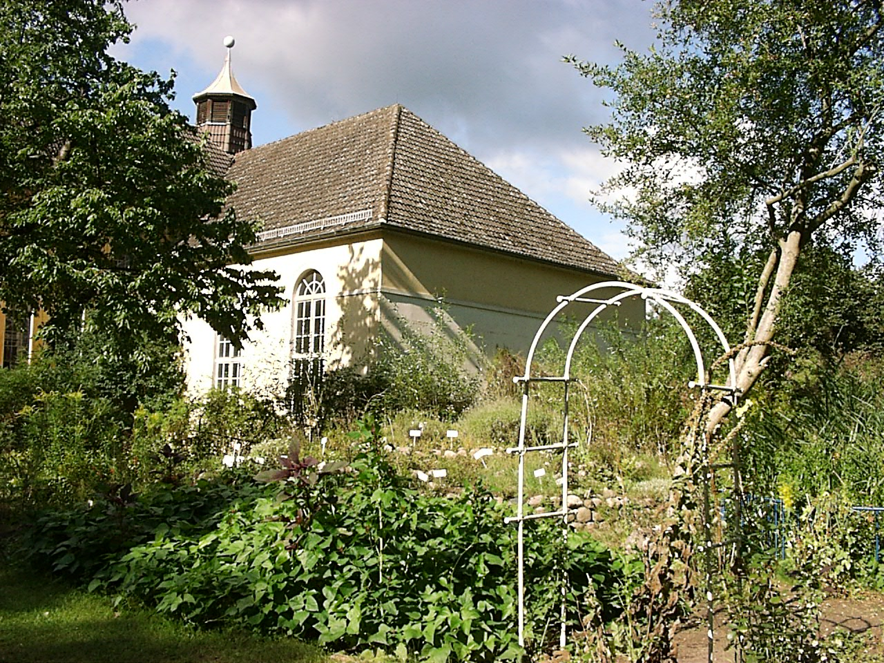 Botanical garden "Lehmann Garden" at Joachimsthalsches Gymnasium in Templin, Brandenburg, Germany.